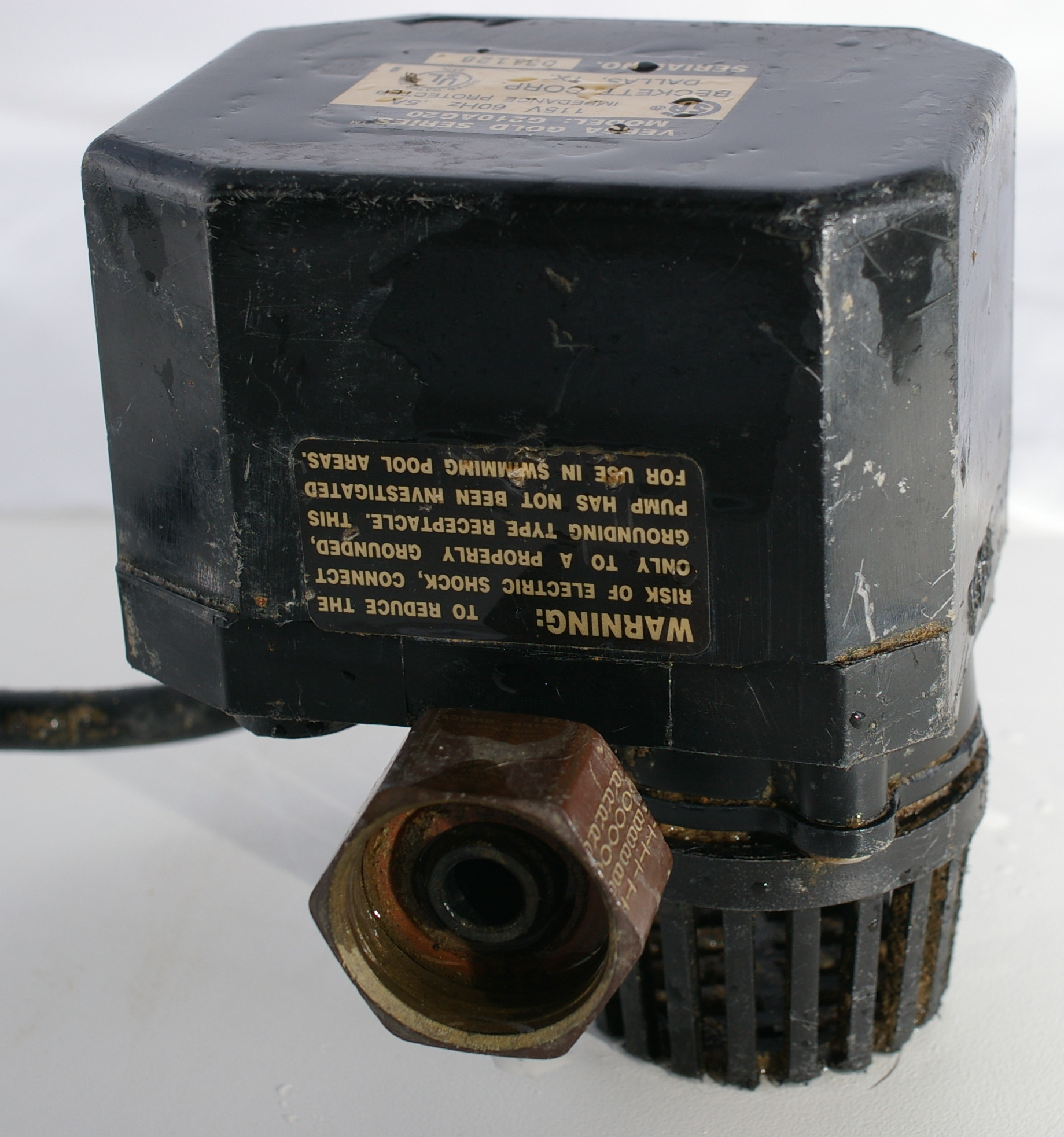 A small AC powered (120V 60HZ 5A) sump pump with a garden hose connector. The intake is on the bottom covered by the plastic screen. This model doesn't have a water detecting switch, and seems to have a centrifugal pump with no check valve.